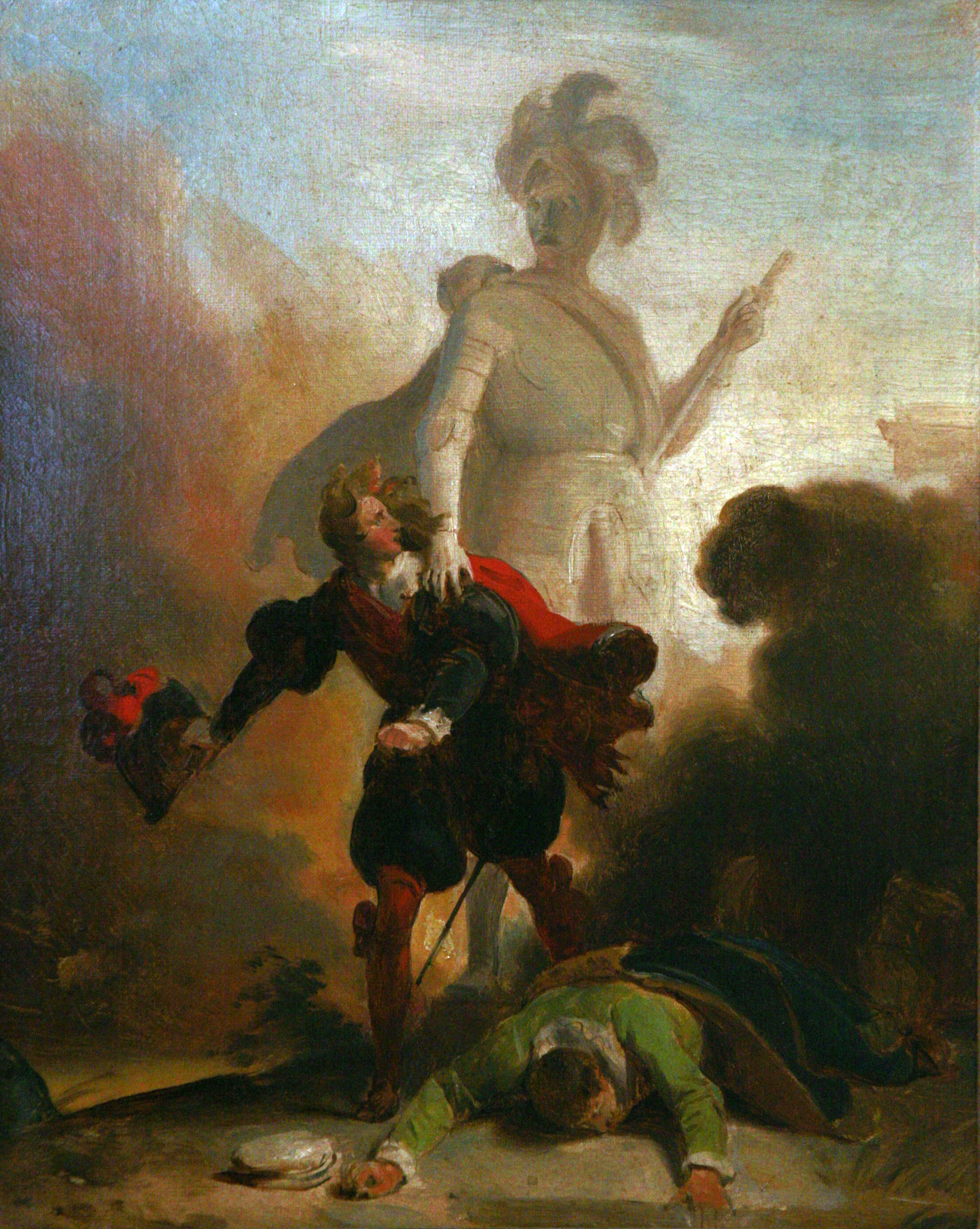 Don Juan and the statue of the Commander, Alexandre-Évariste Fragonard, oil on canvas, circa 1830-1835.